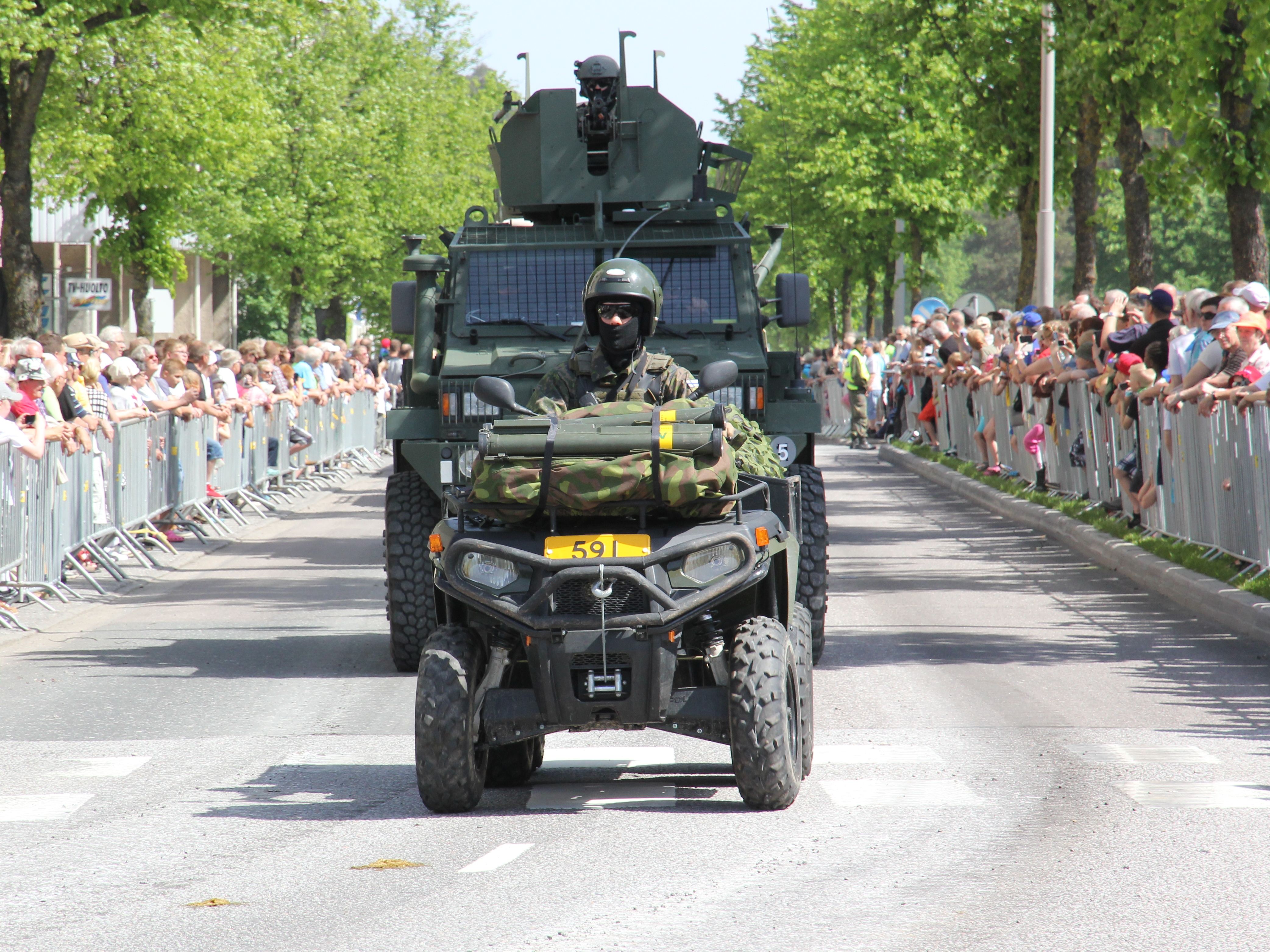 Utti Jaeger Regiment Polaris Sportsman all-terrain vehicle during the Finnish military Flag Day 2014 parade along Valtakatu street in Lappeenranta.